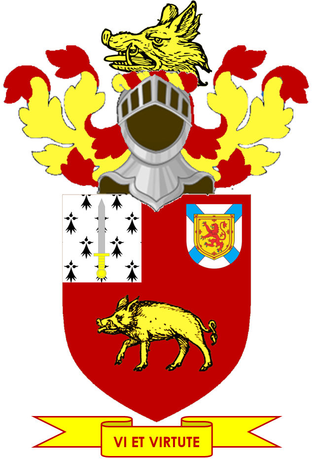 The armorial achievement of the Baird baronets of Saughton Hall